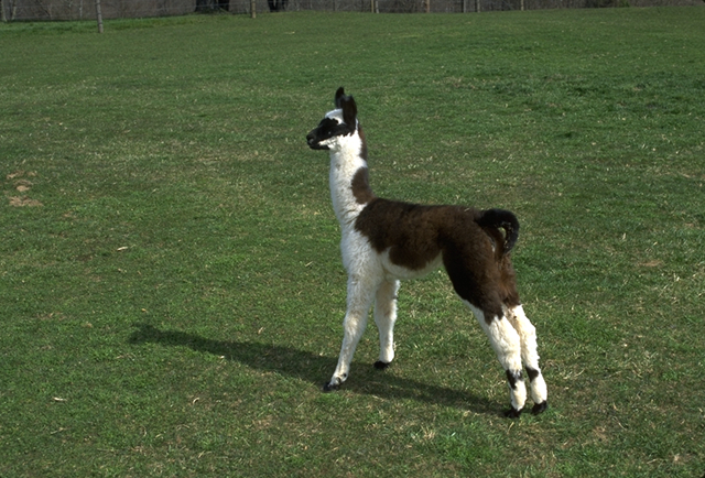 Young llama called a cria at Homestead Llamas in Davidsonville, MD (Image Number: 98cs0047)